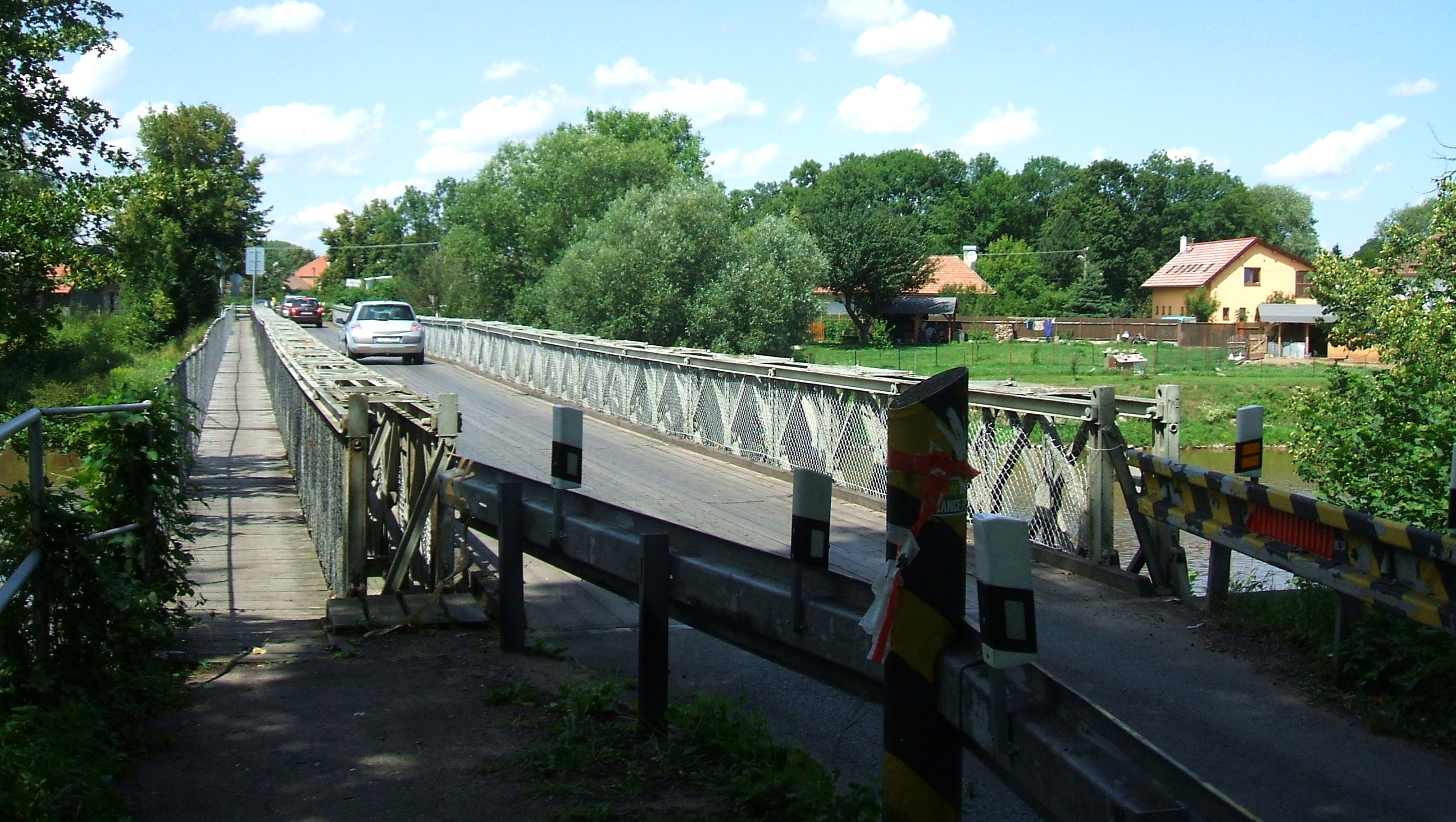 Kunětice, Pardubice District, Czech Republic.